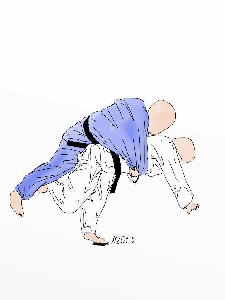 Illustration of the judo throw hane-makikomi, or spring-windup-throw. A sacrifice variation of the spring-hip-throw - hane-goshi.